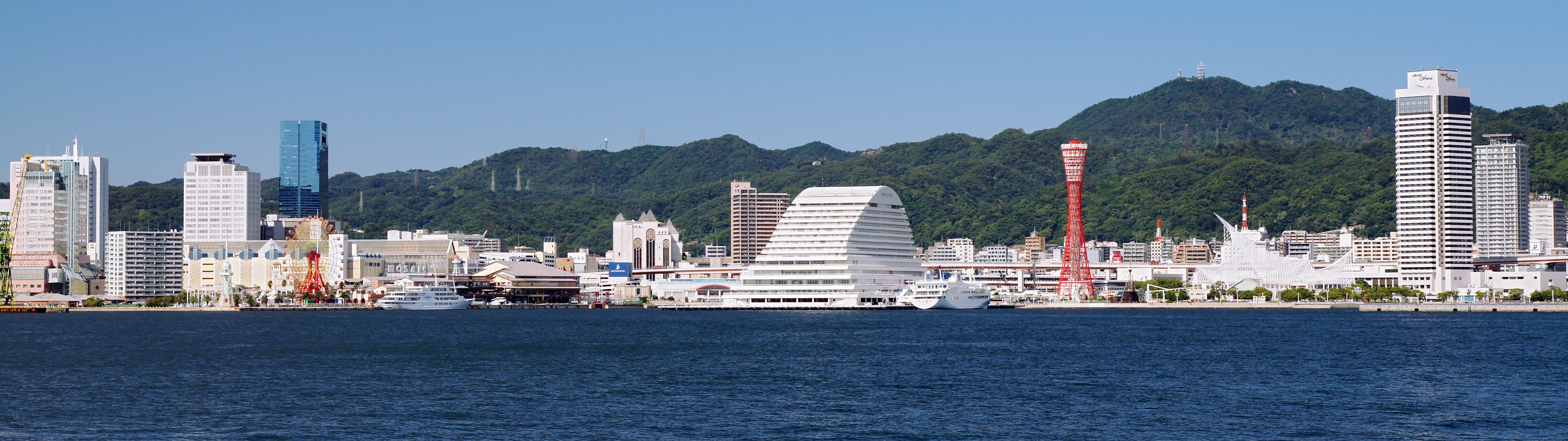 a Kobe Port view from Po-ai Shiosai Park in Kobe, Hyogo prefecture, Japan